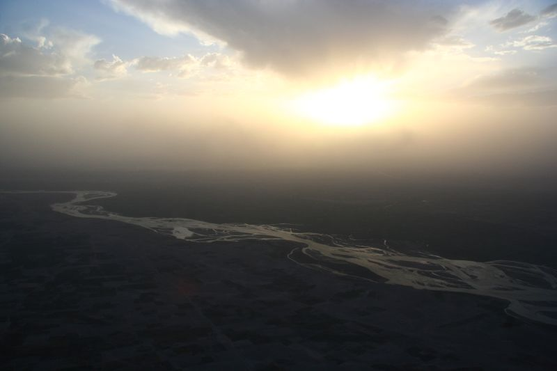 A view of Sangin Valley in Helmand province - 2007.